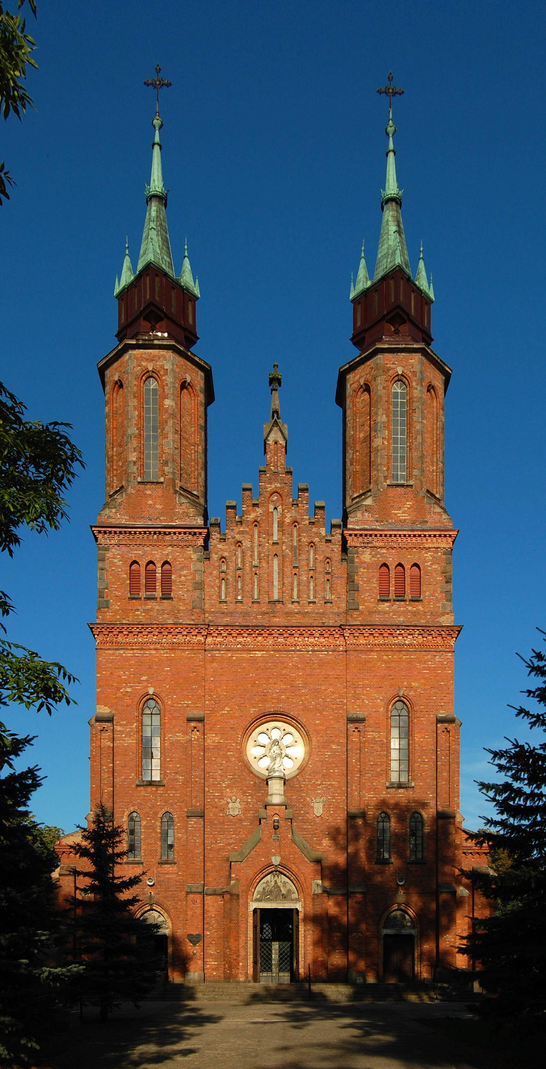 Church in Osieck, Masovian Voivodeship, Poland.